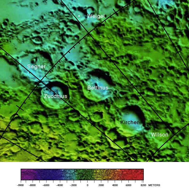 Part of the USGS south pole area lunar chart.